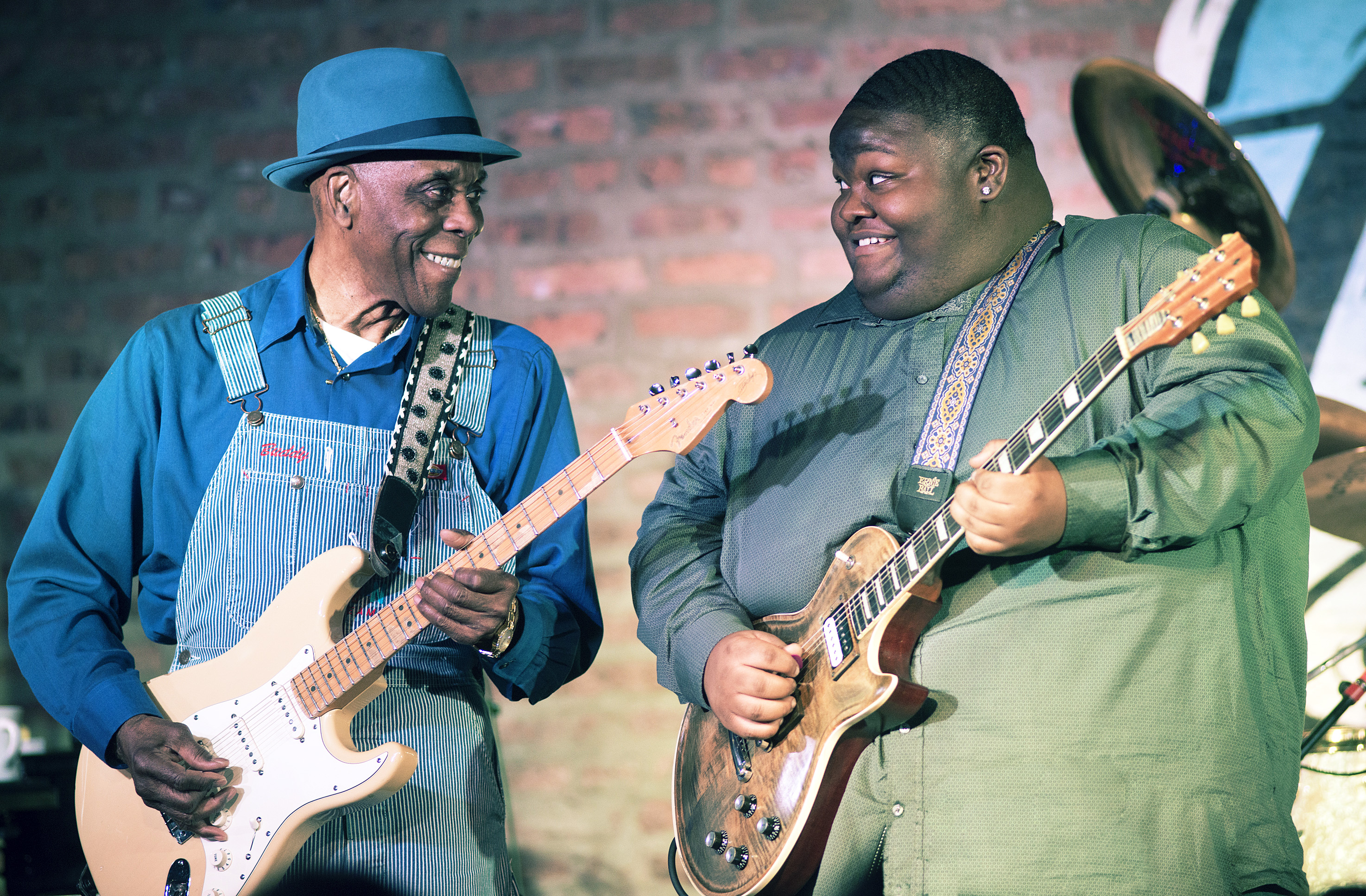 Blues artist Christone "Kingfish" Ingram and Buddy Guy at Buddy Guy's Legends in Chicago Illinois